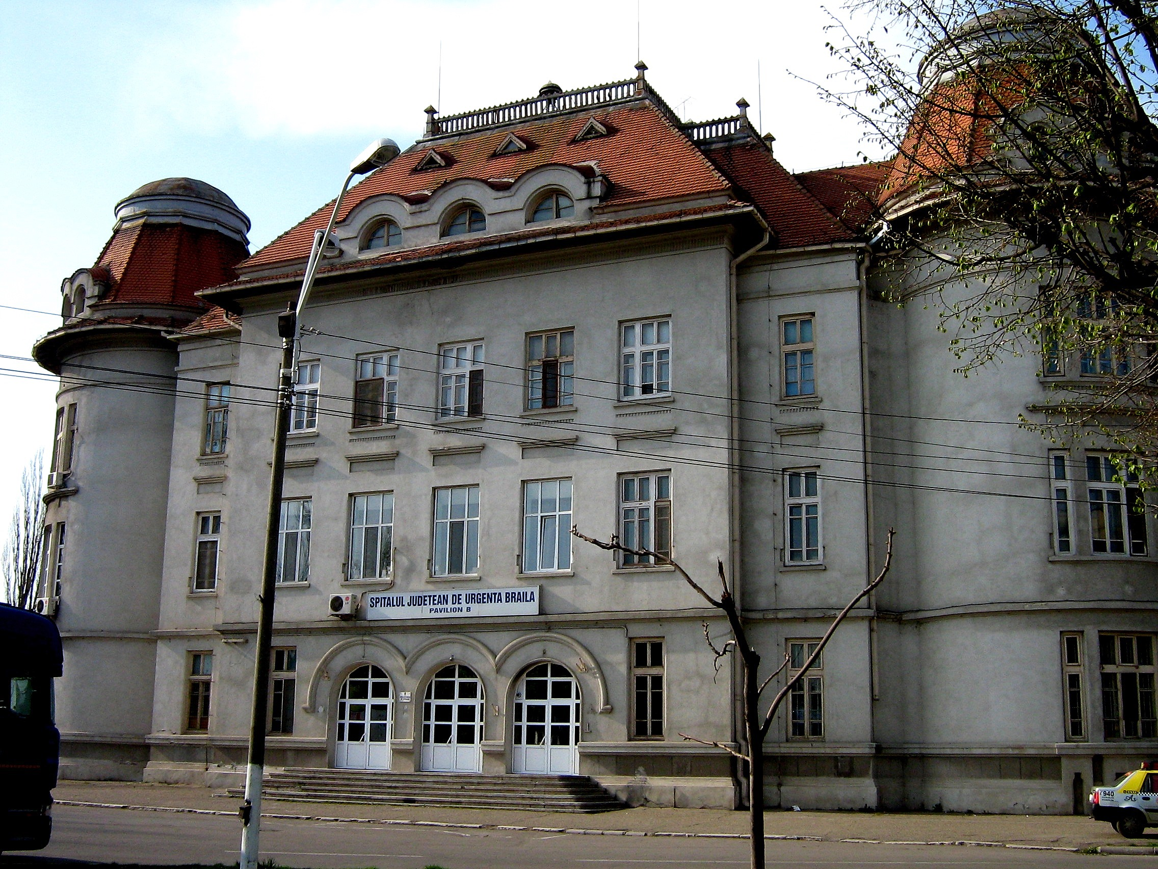 Brăila County Emergency Hospital